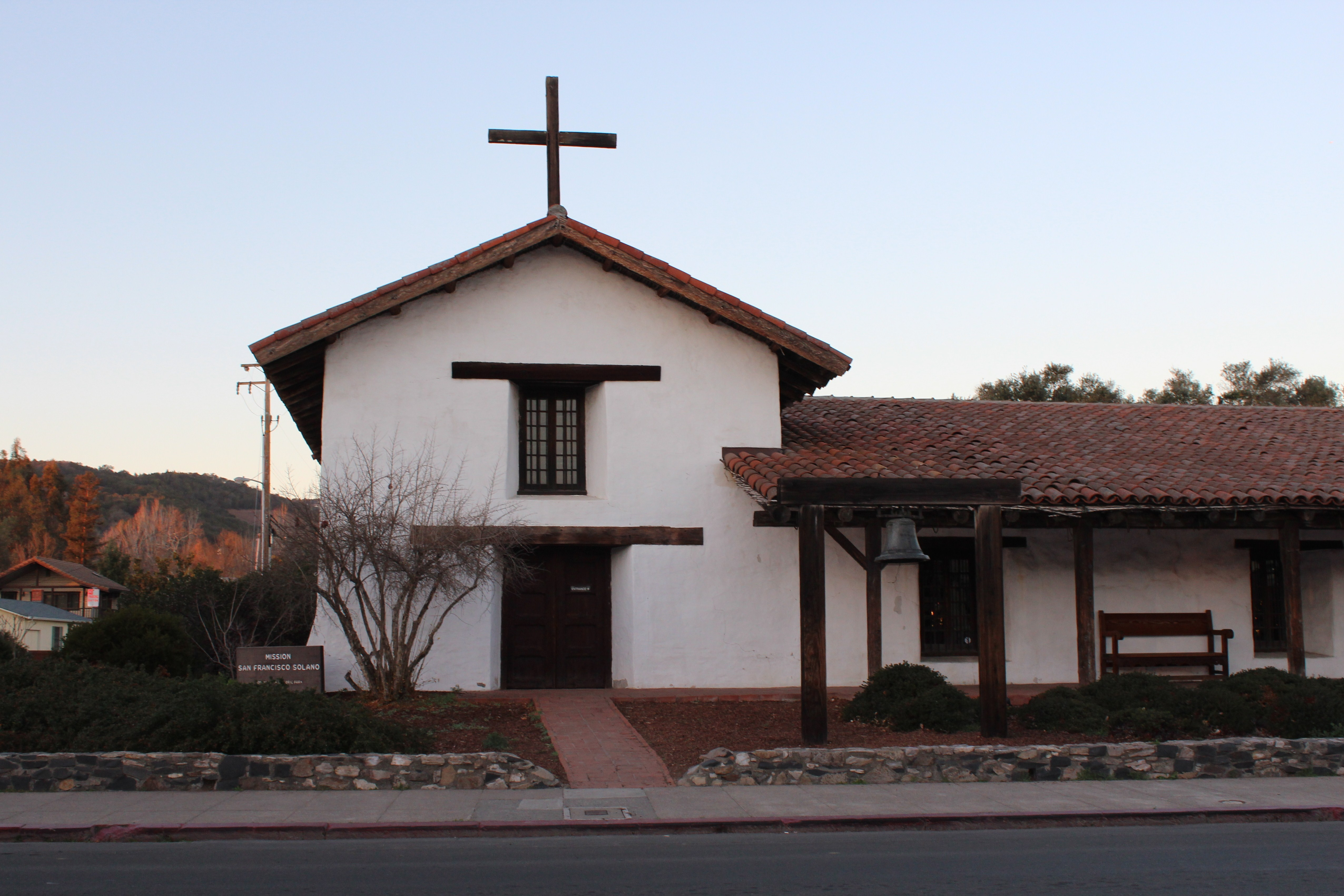 Mission San Francisco Solano